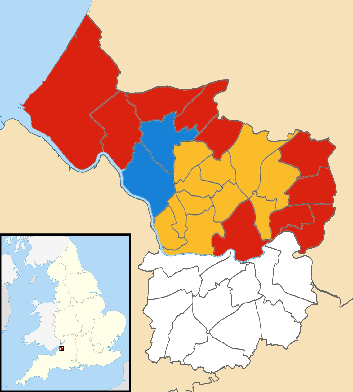 Results of the 2005 local elections in Bristol Colours: Conservative Labour Liberal Democrat No election in 2005